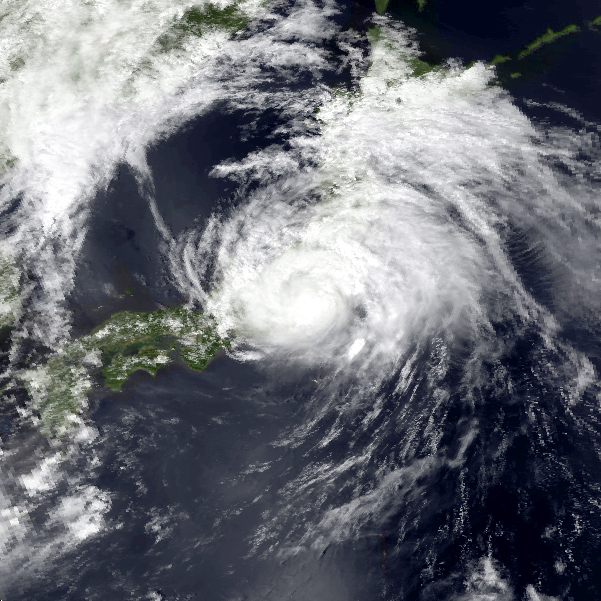 Typhoon Winona on August 10, 1990